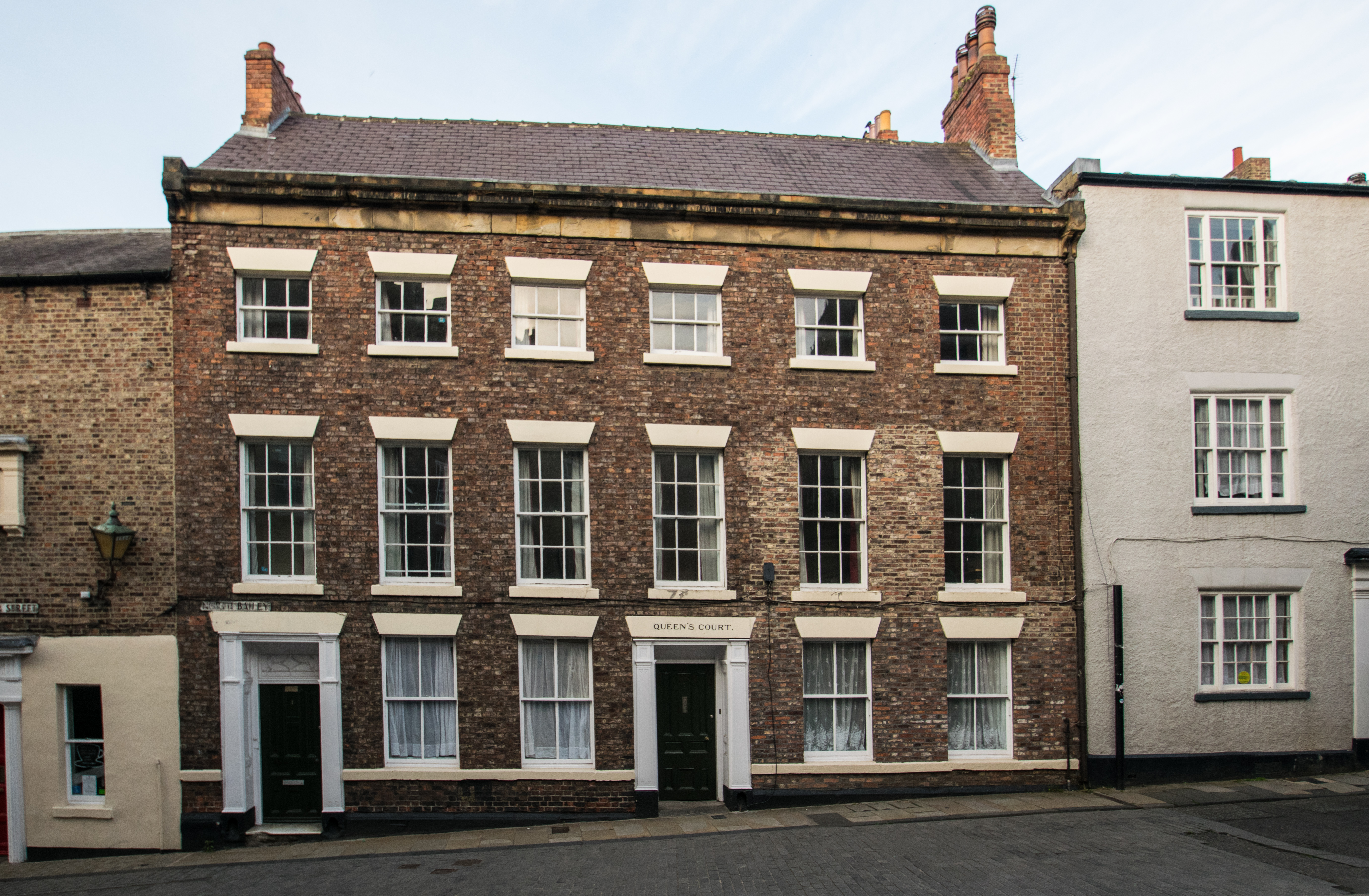 Queen's Court, 1-2 North Bailey, Durham, used as accommodation by St Chad's College, Durham